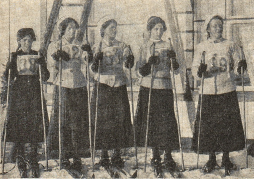 Women prize winners of skiing competition at Insjön, Sweden 1911